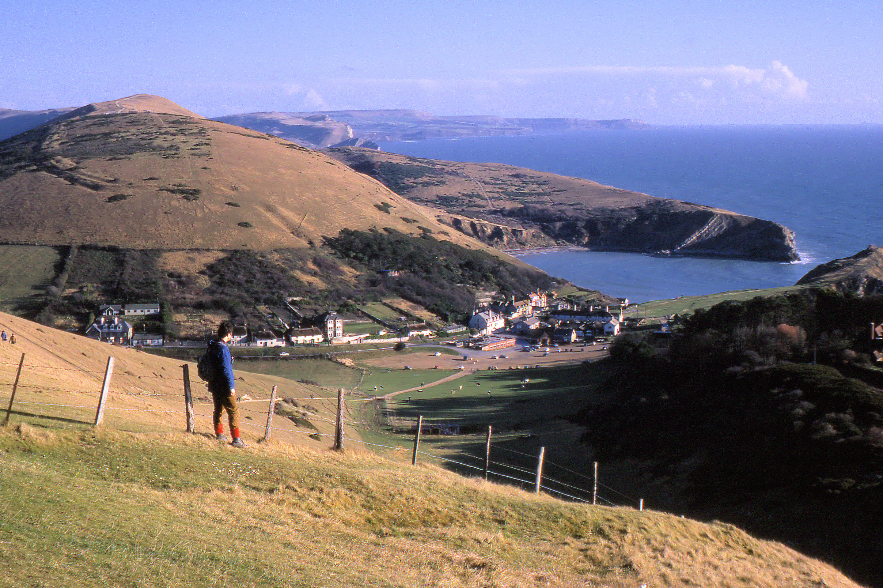 Lulworth Cove, Dorset, England, looking roughly east. (I can’t decide if the village shown is called Lulworth Cove or West Lulworth.)